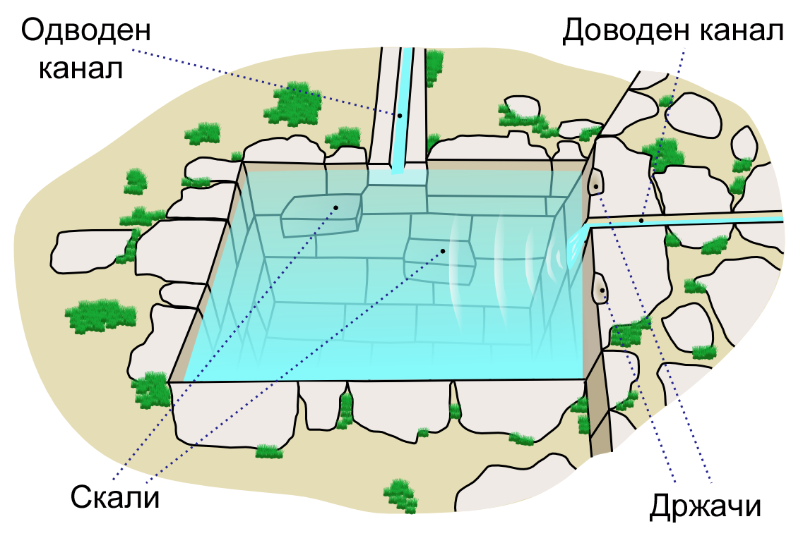 Plan of Inca bath on Macedonian.